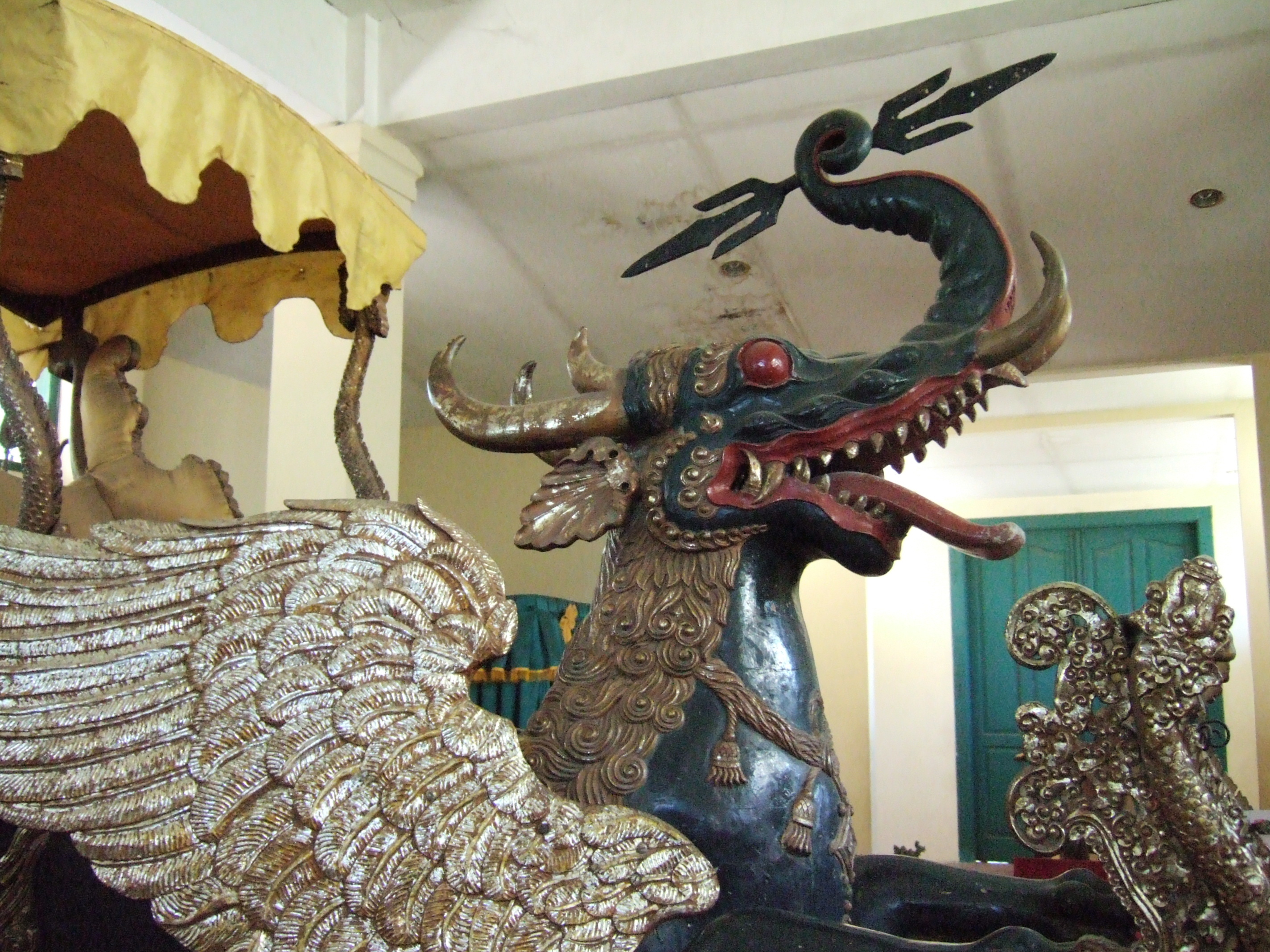 Sultan's carriage, Kereta Kencana Singabarong, Keraton Kasepuhan, Cirebon, Indonesia